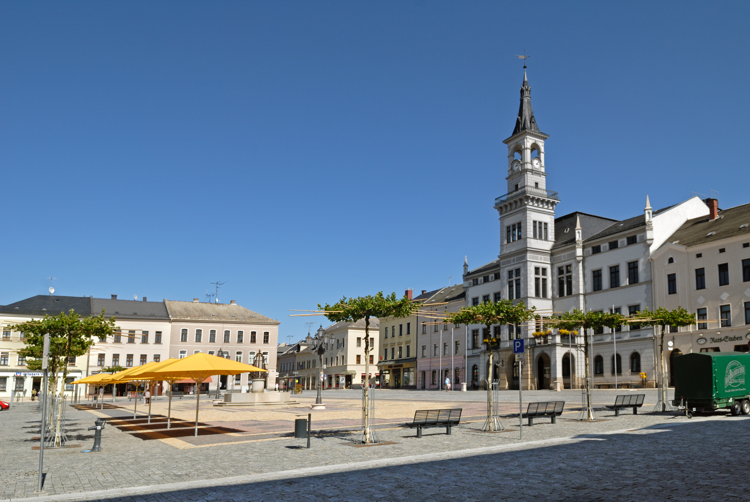 This image shows the market in Oelsnitz/Vogtl, Germany.